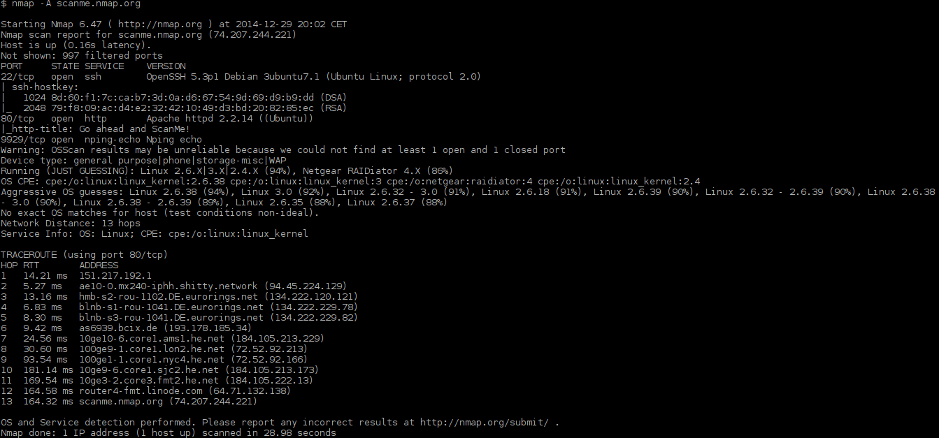 Nmap Security Scanner version 6.47 being run on a test host with advanced features turned on. Scan was performed from the Chaos Communication Congress network.